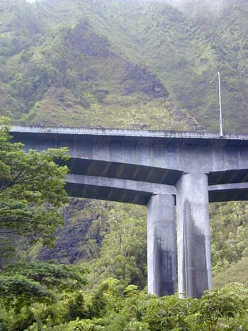 H-3 viaduct in Ha‘iku Valley, windward O‘ahu. Photograph taken by Eric Guinther and released to Wikipedia.